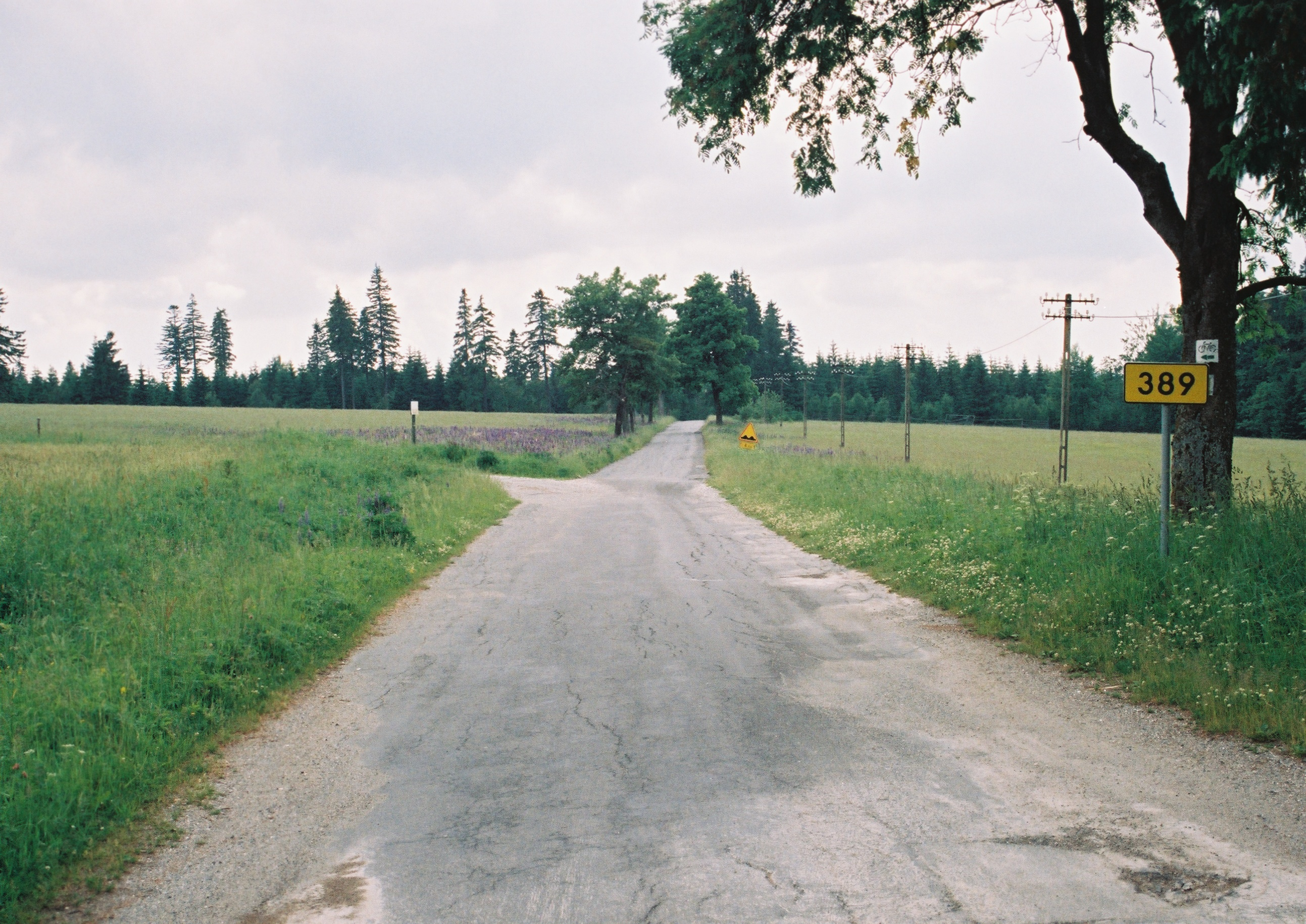 Road no. 389 (called "Sudetes Highway") near Spalona Pass in Bystrzyckie Mountains, Poland.